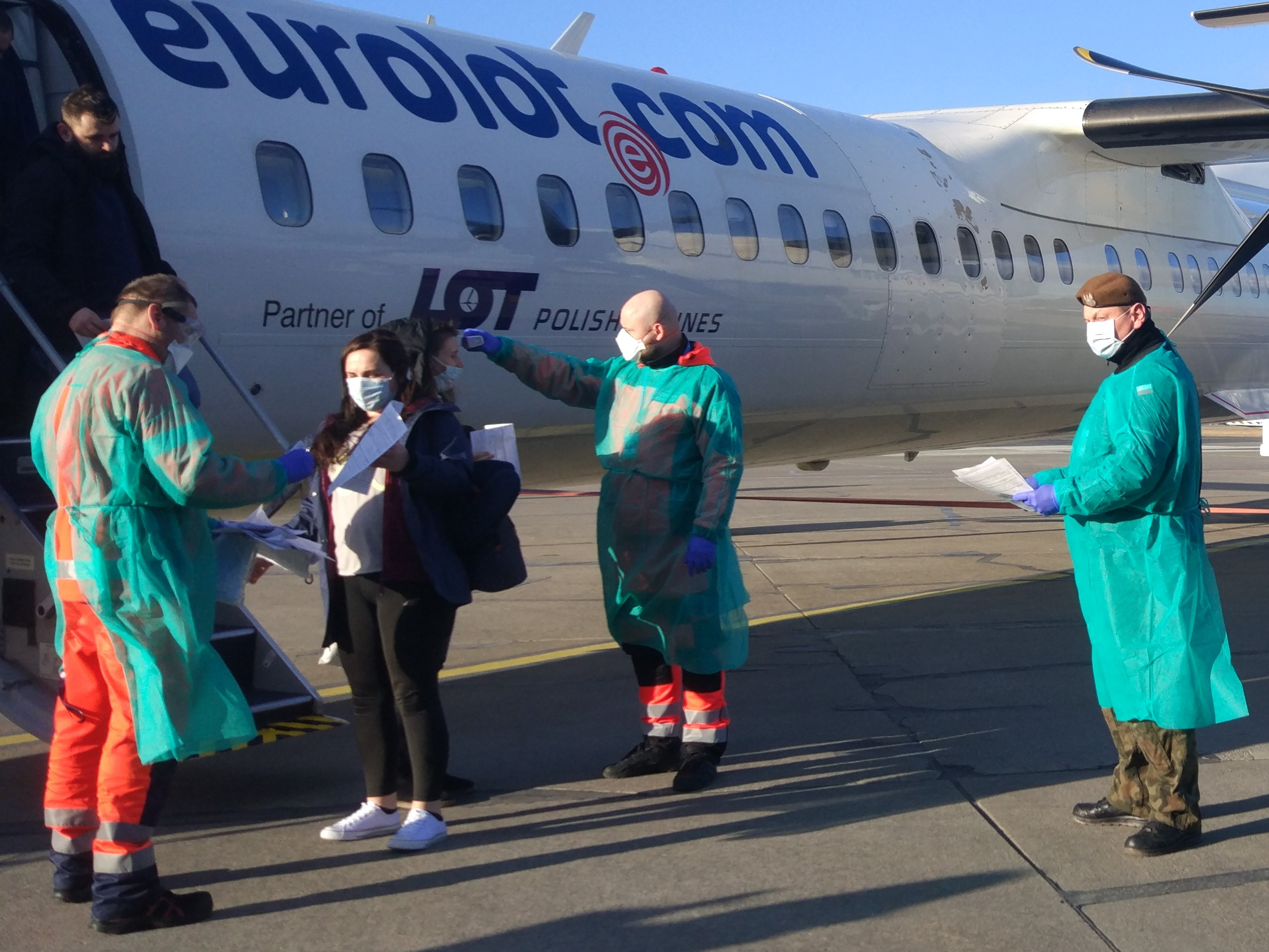 Passengers of LO3883 (SP-EQI) arrived at Katowice Airport had their body temperature measured by medical staff upon arrival.